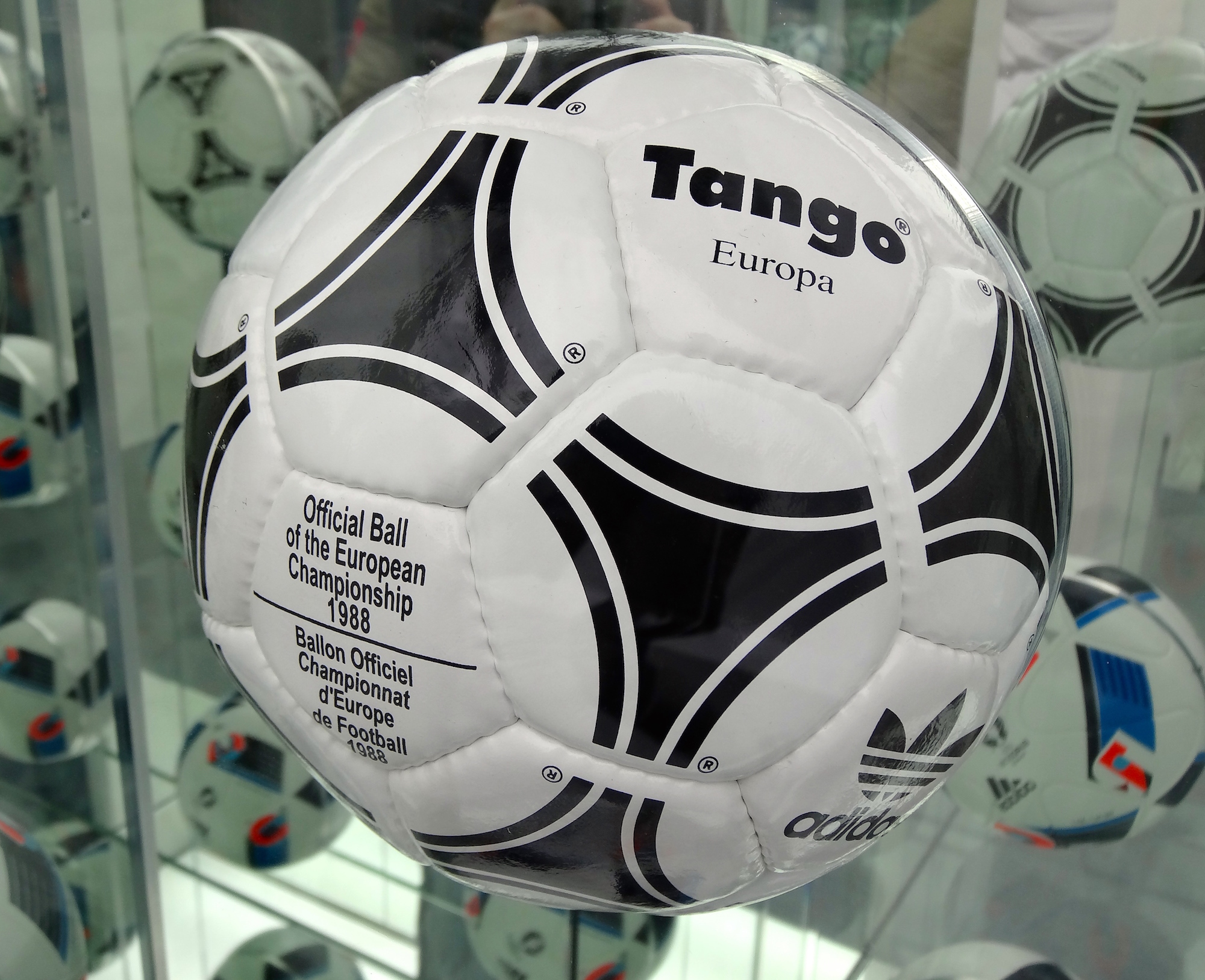 Euro 1988 ball